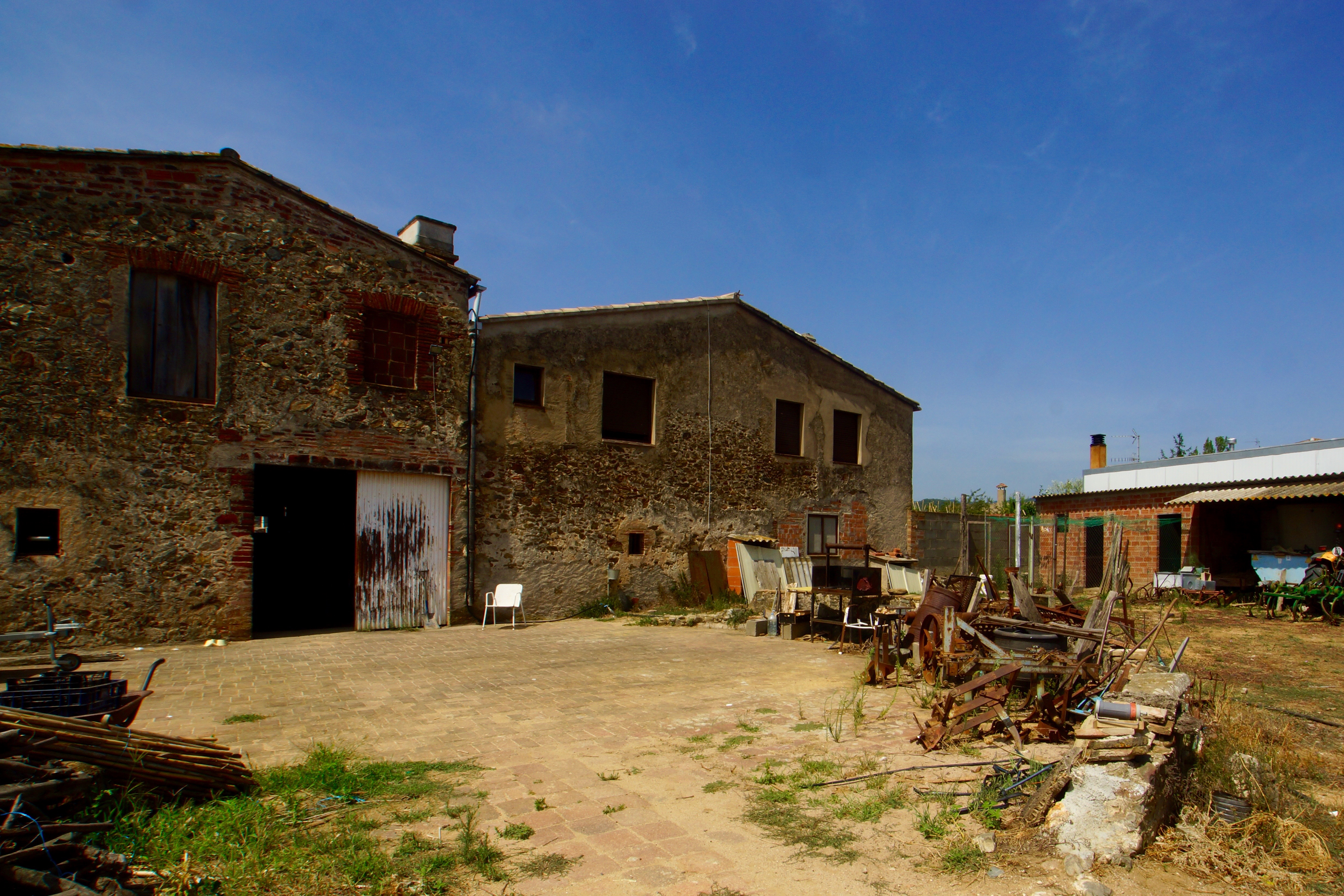 Calonge (Puigtavell), Catalonia: Obsolete Threshing floor from "Can Moreu" farm